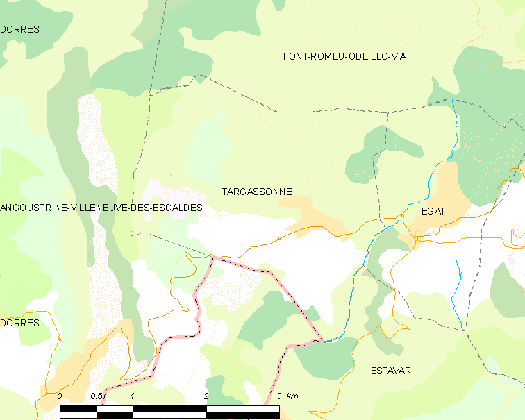 Map of French municipality